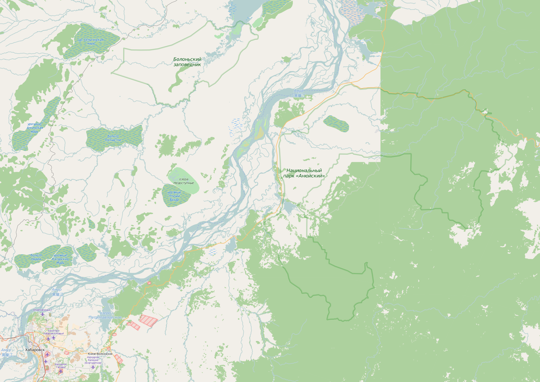 Boundaries of Anyuysky Park, between the Amur River (to the west), and the Central Sihkote-Alin Mountains